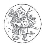 Illustration in Curious Myths of the Middle Ages